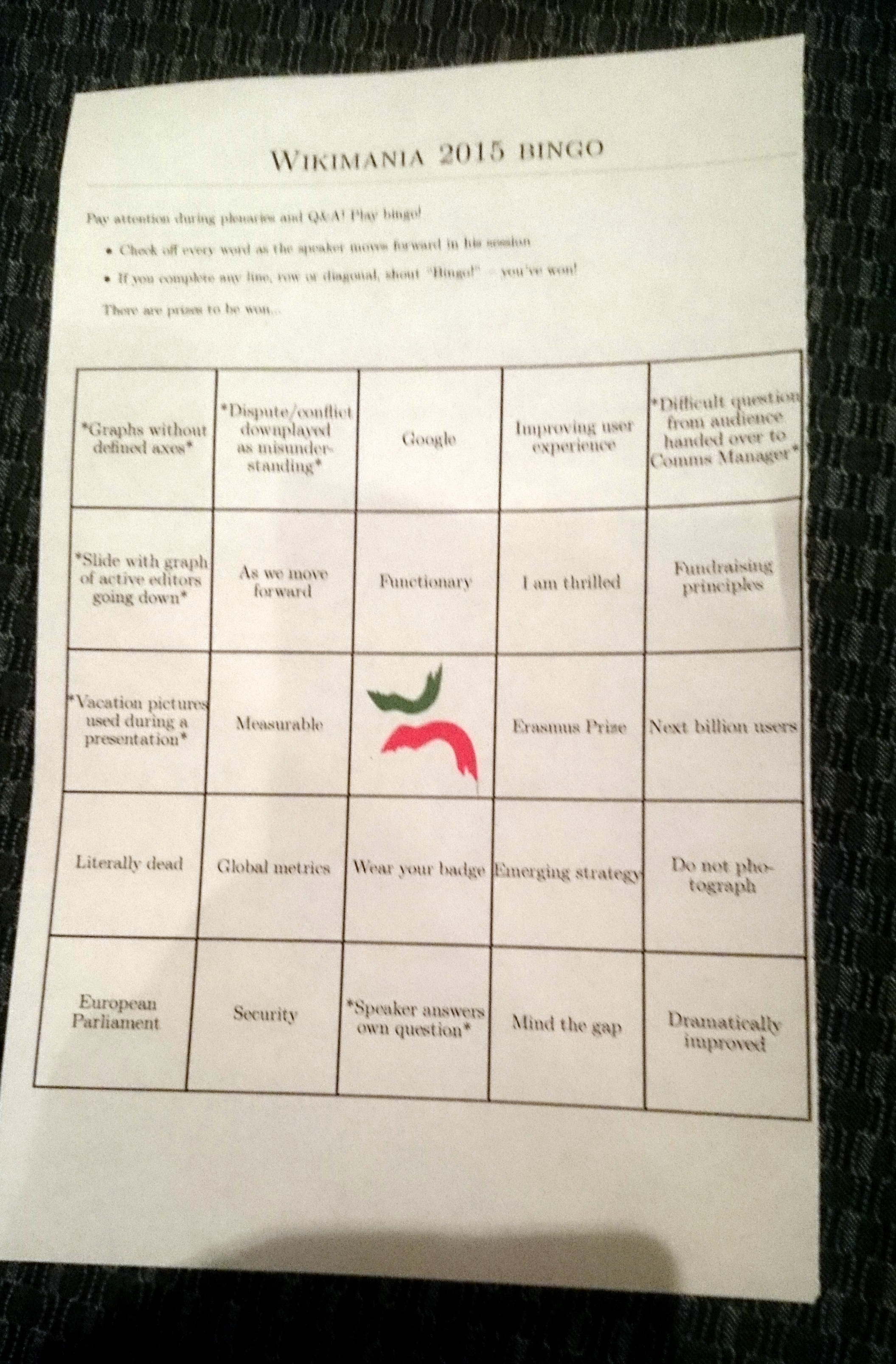 Wikimania 2015, Mexico City